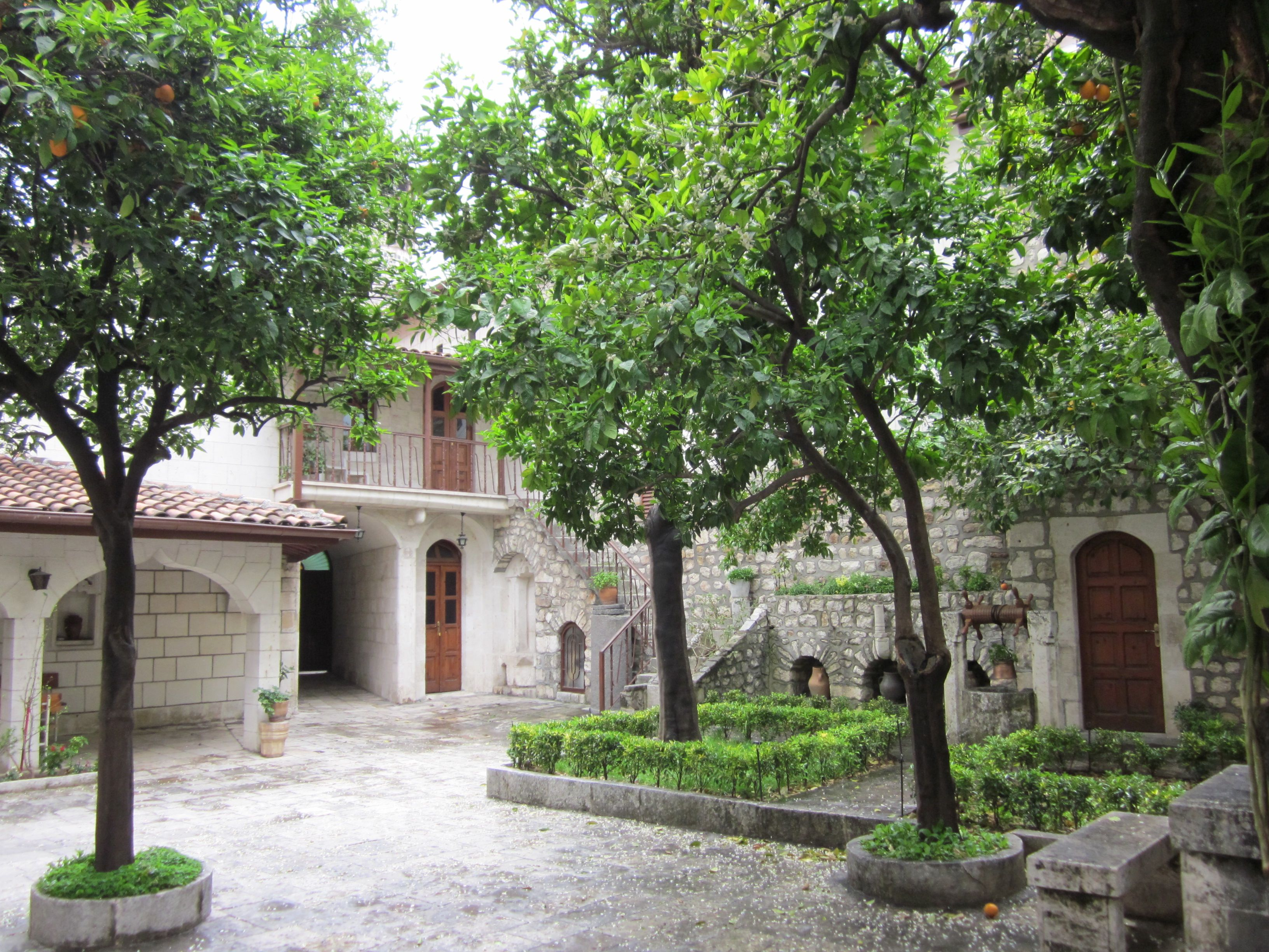 Garden of the Catholic Church of Antakya (Antioch), Hatay province, Turkey. The church is dedicated to the Apostles Peter and Paul.